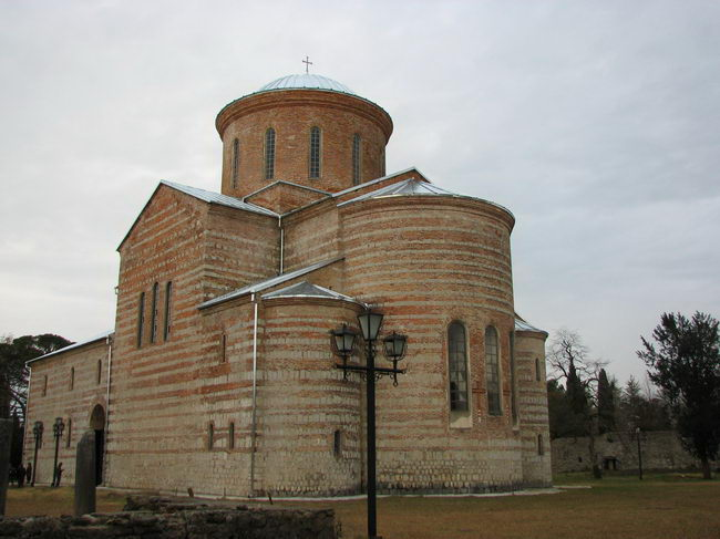 St. Andrew Pitsunda Cathedral (X c. CE), Abkhazia